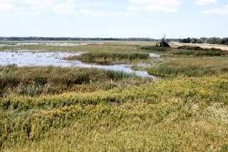 Montezuma Marshes, Seneca County